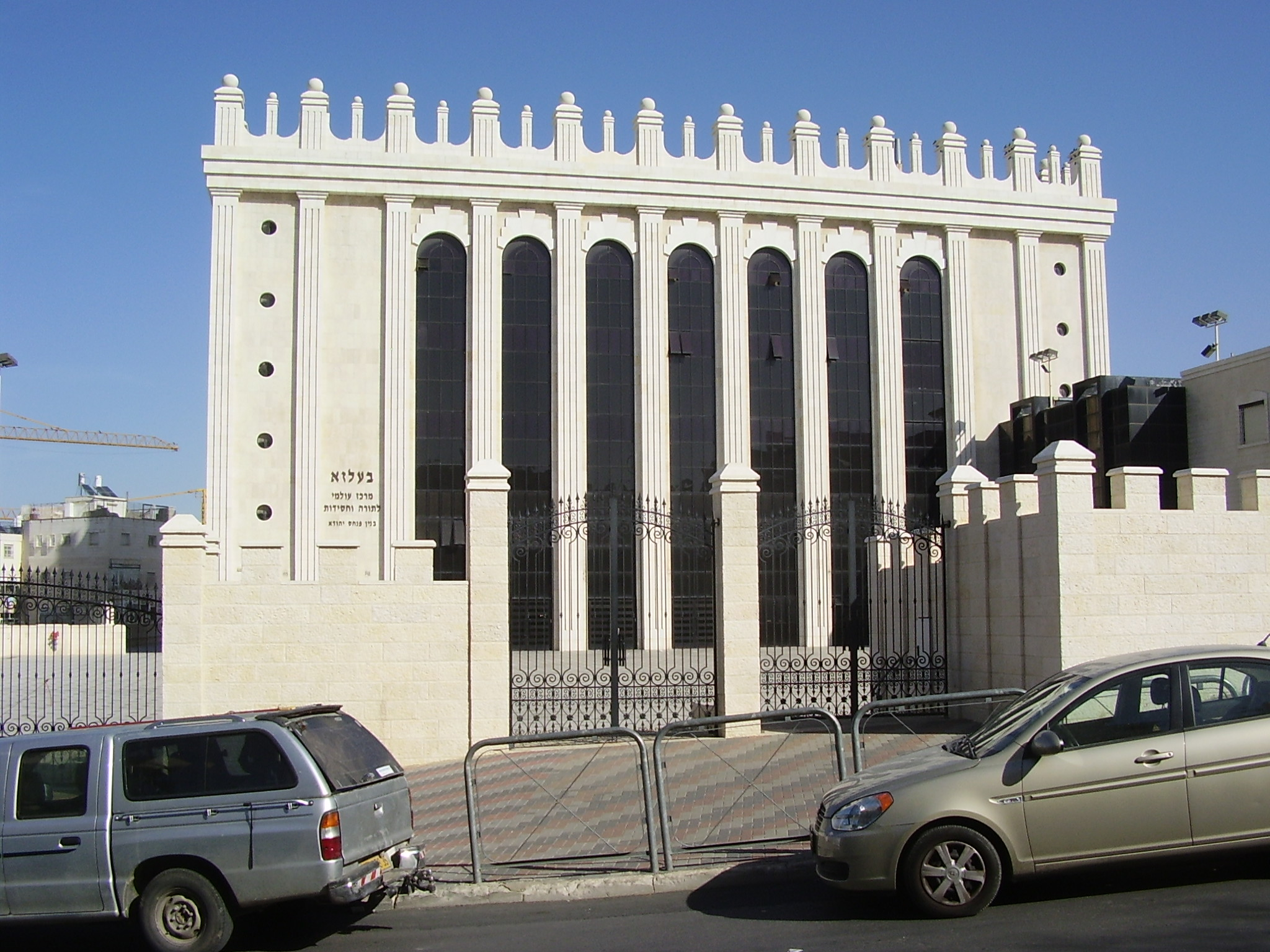 belz chassidim world center in jerusalem